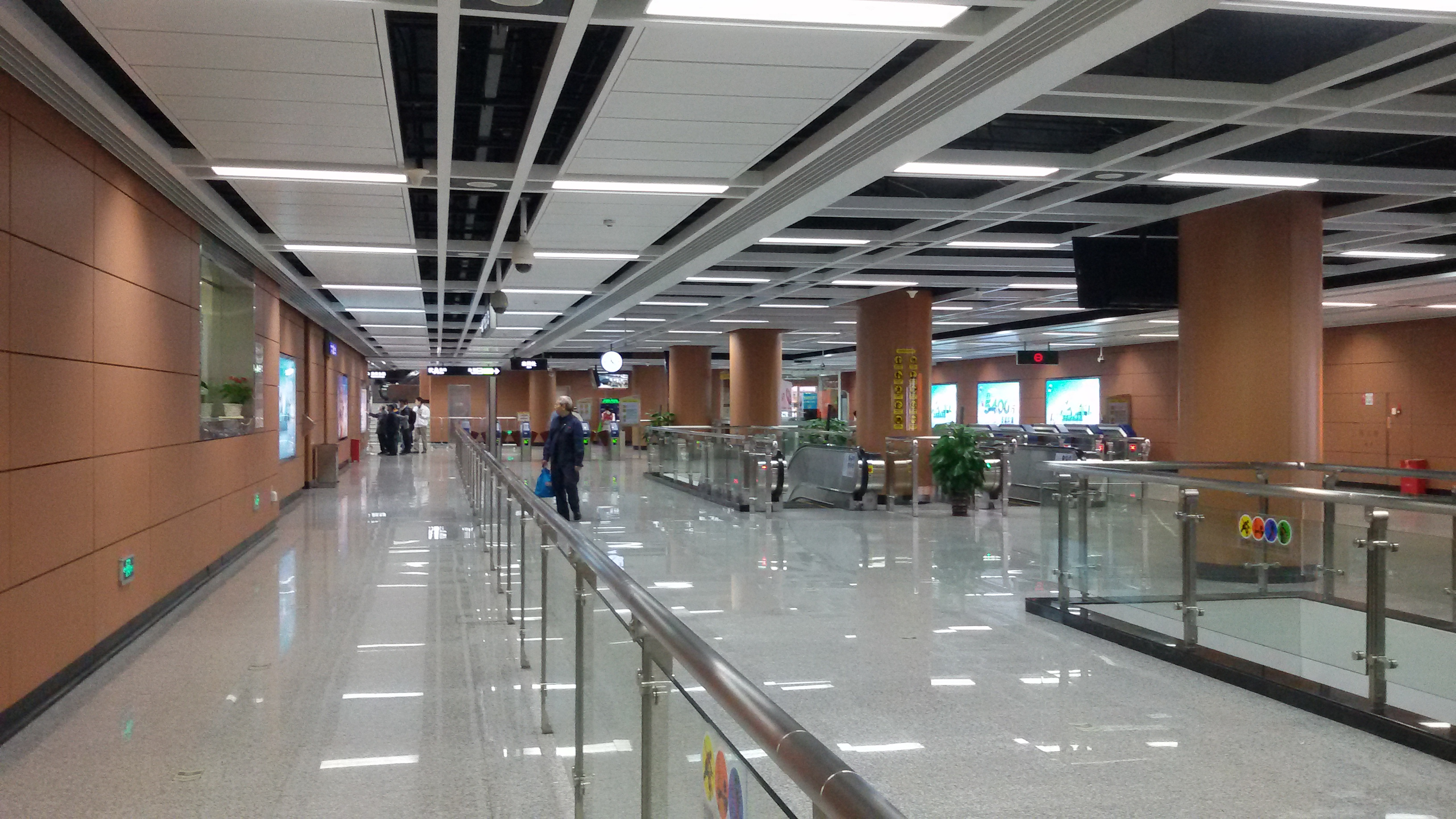 Concourse for Shachong Station in FMetro.